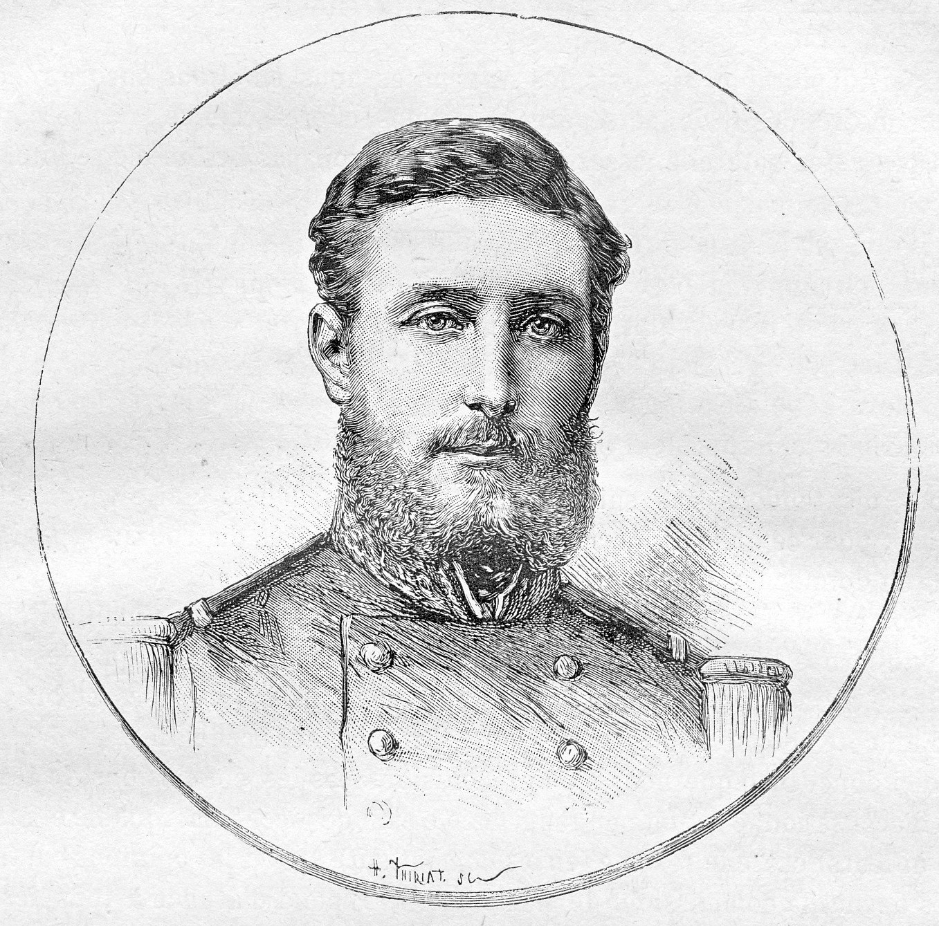 Lieutenant de vaisseau Bouët-Willaumez, Vipère, killed in action during the descent of the Min River, 27 August 1884